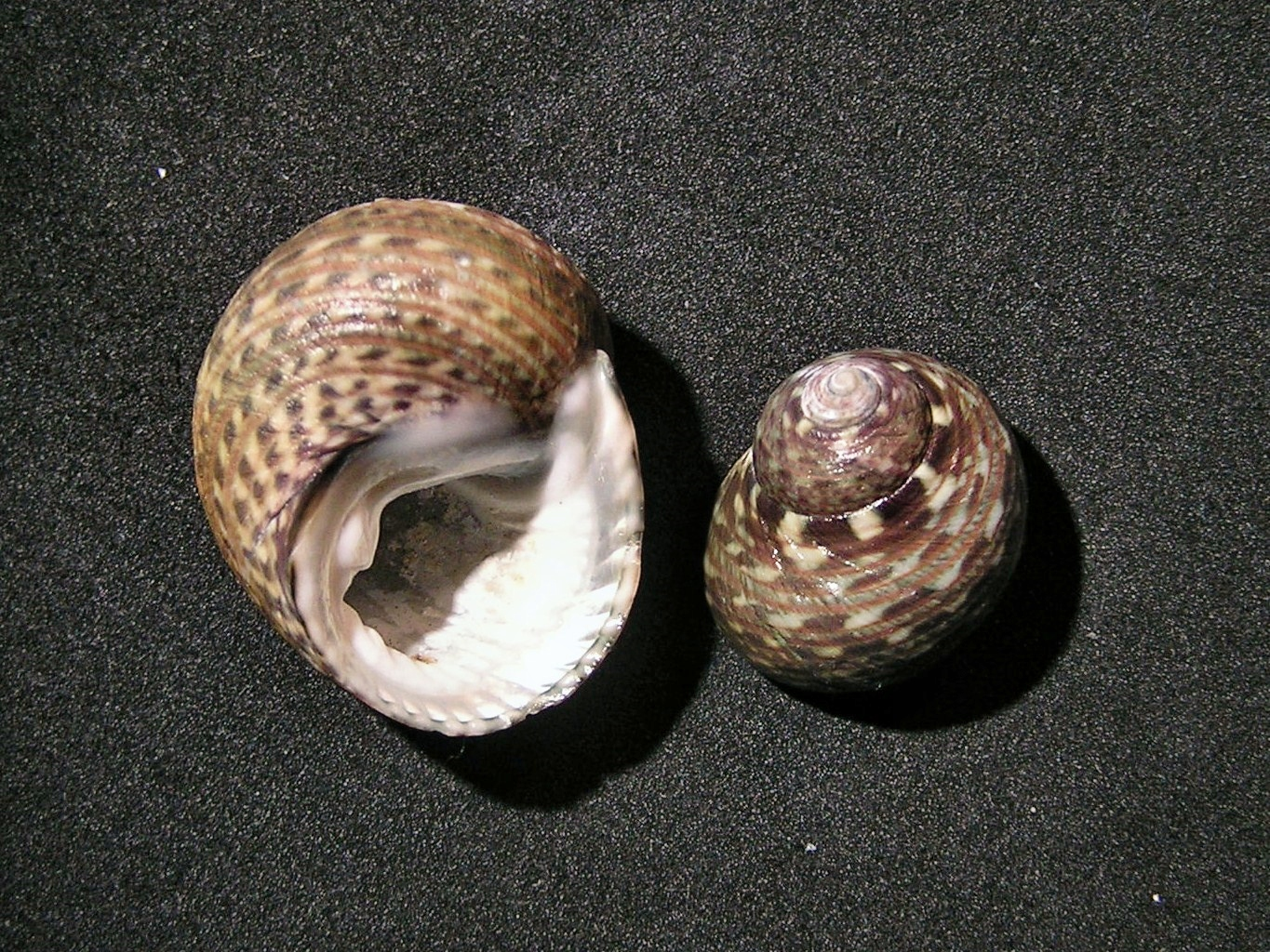 Monodonta vermiculata (P. Fischer, 1874) , a top snail in the family Trochidae; Kuwait